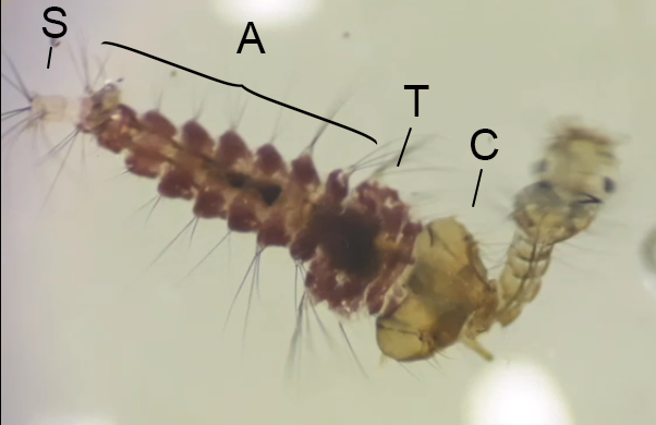 larva of Corethrella feeding on a culicid larva